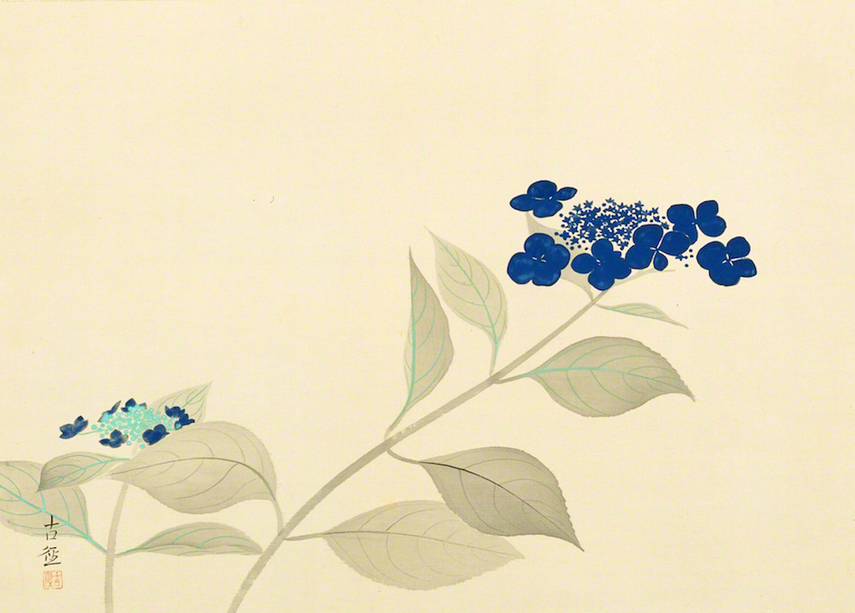 "Hydrangea". Colour on silk, hanging scroll. 52.7 x 73.0 cm. Tokyo Fuji Art Museum.